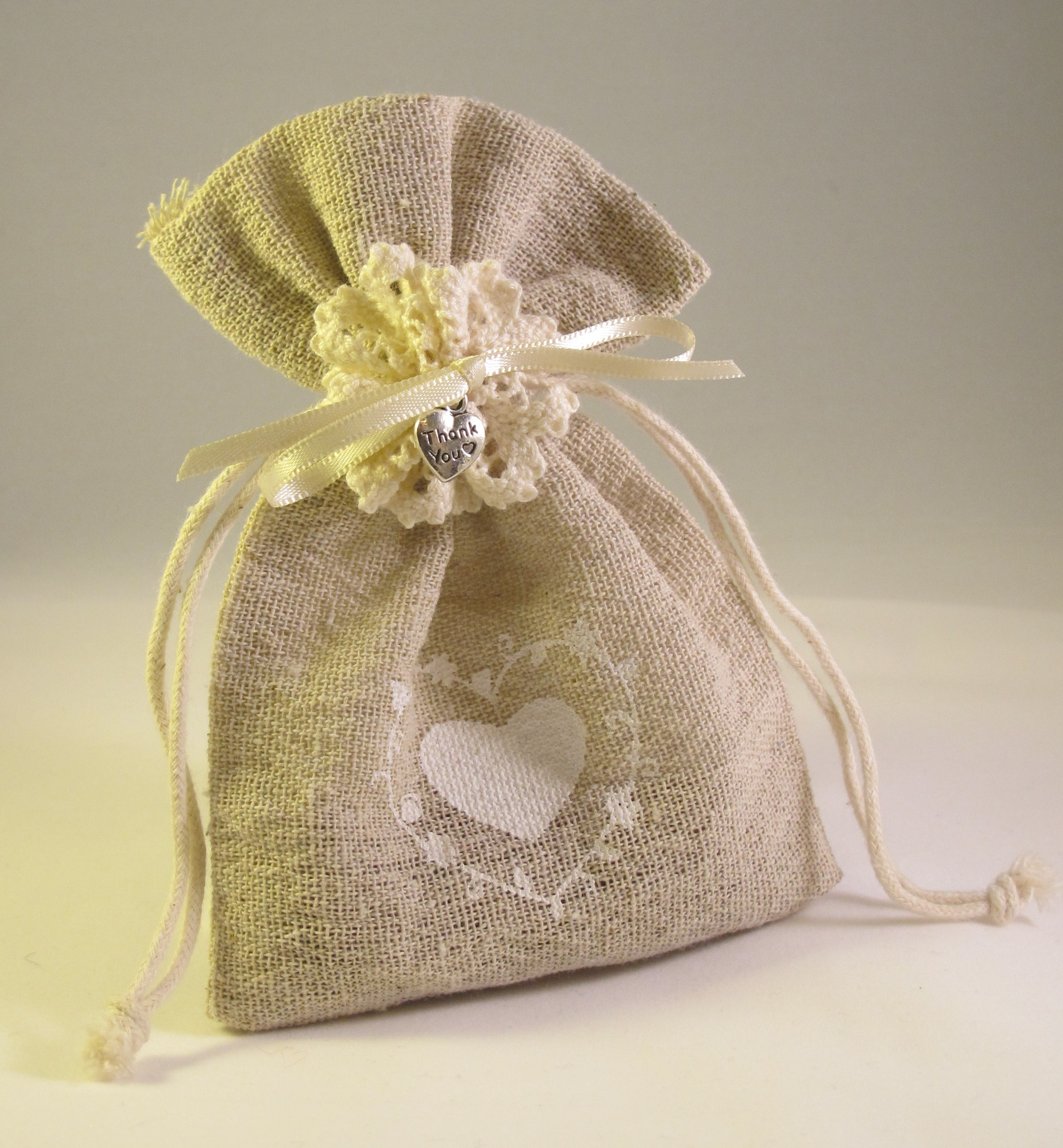 Traditional rustic wedding favour, with the 5 sugared almonds